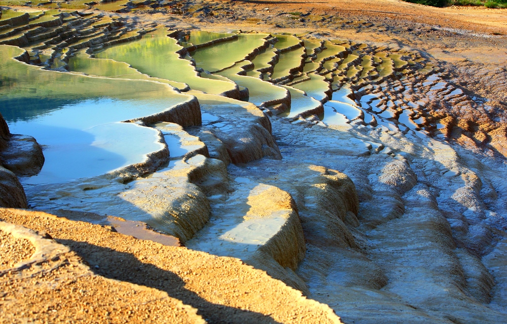 Badab-e Surt (Persian: باداب سورت) is a natural site in Mazandaran Province in northern Iran, 95 kilometers South of city of Sari, and 7 kilometers west of Orost village. It comprises a range of stepped travertine terrace formations that has been created over thousands of years as flowing water from two mineral hot springs cooled and deposited carbonate minerals on the mountain side